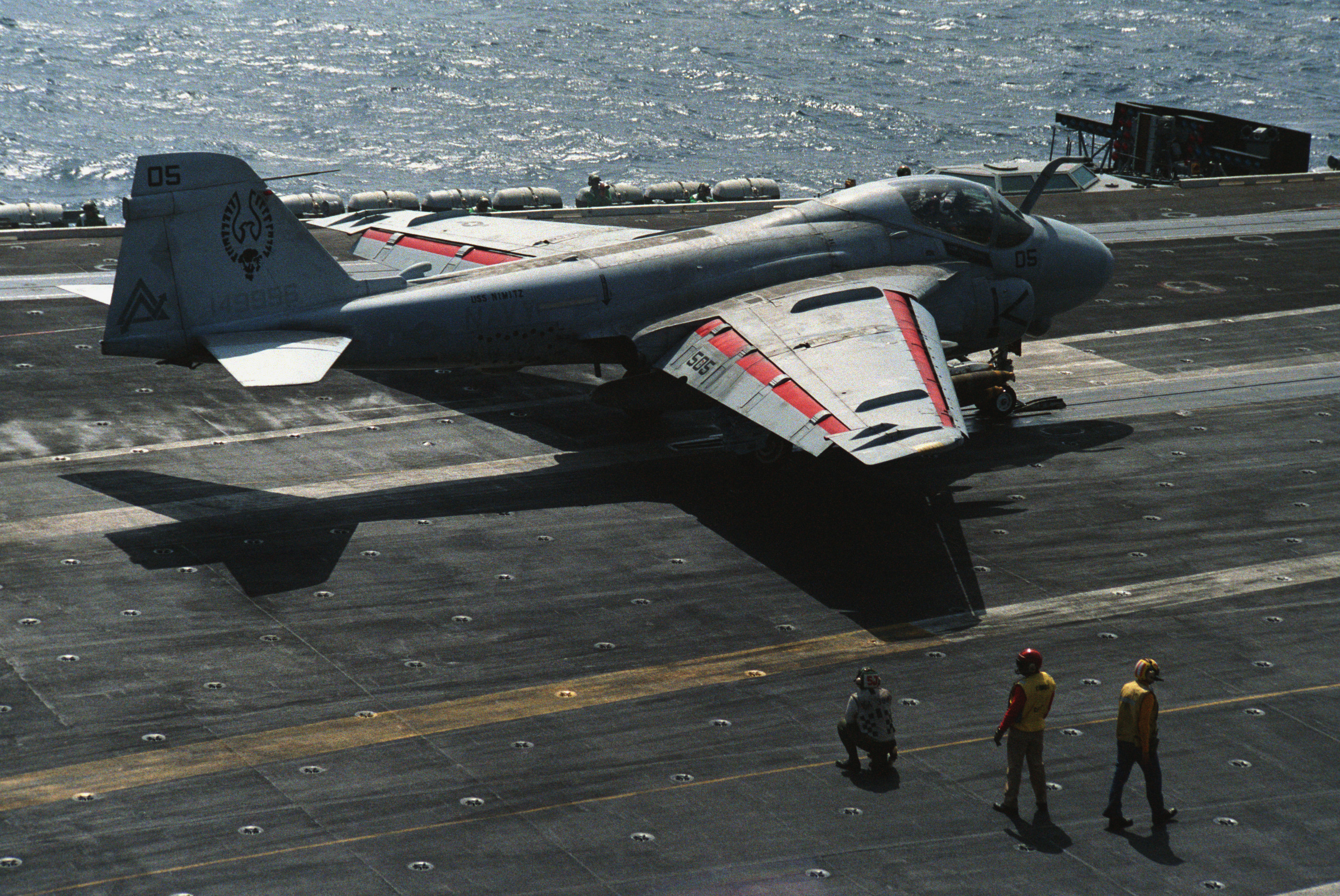 A U.S. Naval Reserve Grumman A-6E Intruder (BuNo 149956) from attack squadron VA-304 Firebirds from Naval Air Station Alameda, California (USA), in position on catapult no. 2, ready to launch off the deck of the aircraft carrier USS Nimitz (CVN-68) on 1 August 1992. The Reserve Carrier Air Wing 30 (CVWR-30) squadron was embarked aboard the Nimitz for a two-week annual training period. After its retirement the Intruder 149956 was sunk as an artificial reef.